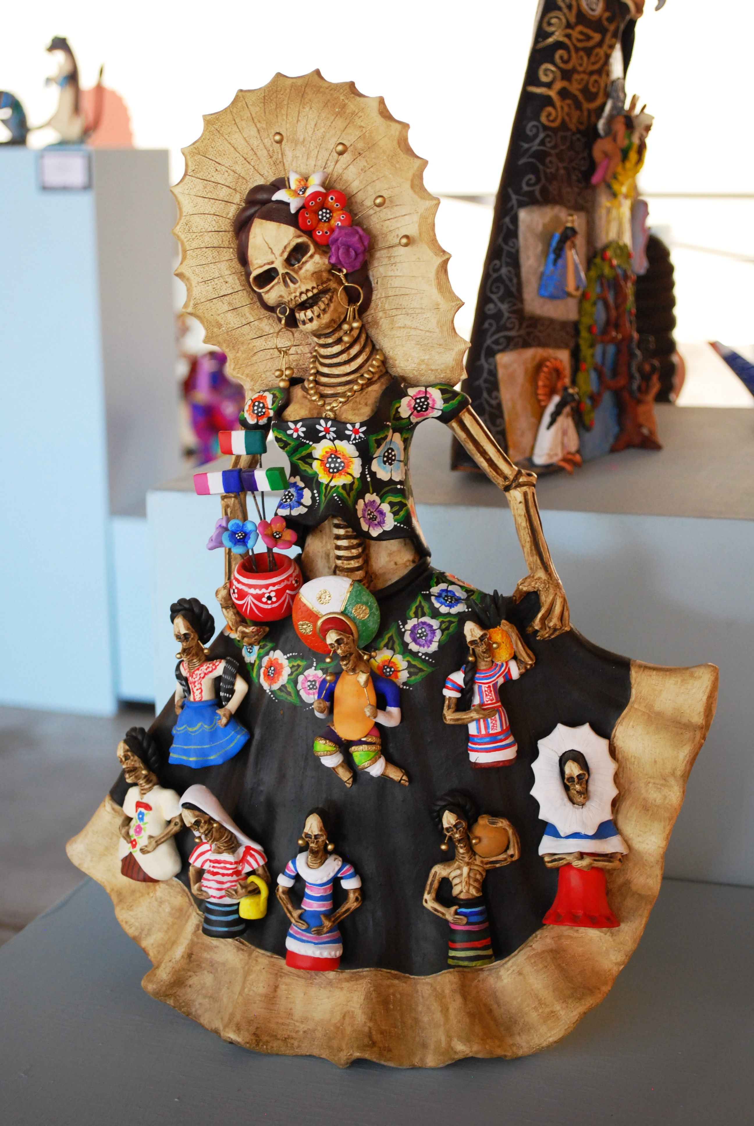 "Las Siete Regiones" by Leopoldo Garcia Aguilar of Ocotlan de Morelos at Museo Estatal de Arte Popular de Oaxaca in San Bartolo Coyotepec, Oaxaca, Mexico. See COM:CRT/Mexico#Freedom of panorama